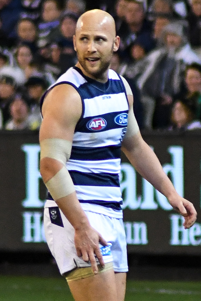 Gary Ablett of Geelong during the 2018 AFL round 20 match between Richmond and Geelong at the Melbourne Cricket Ground on Friday, 3 August 2018 in Melbourne, Victoria.